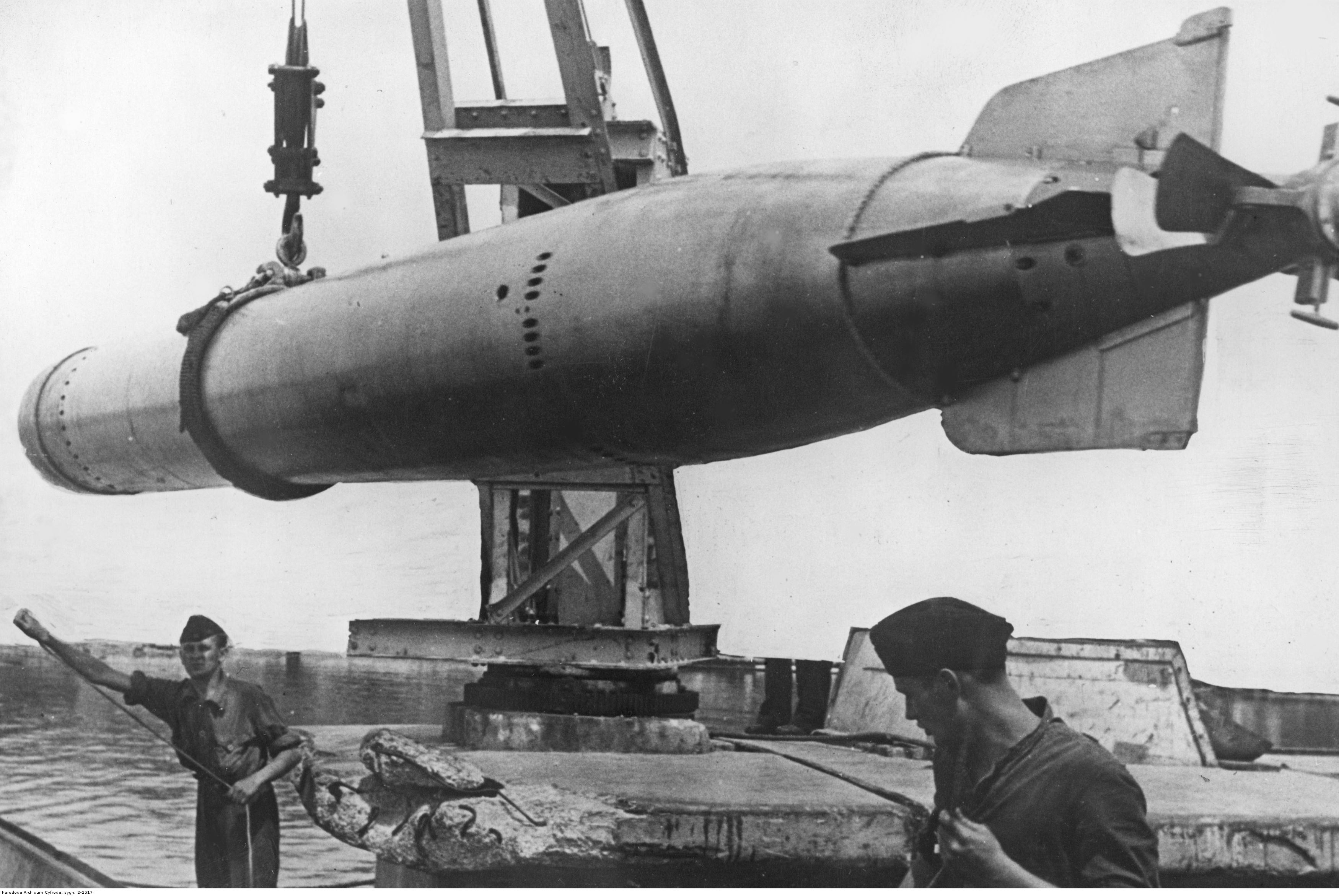 There is no original German description of this torpedo. Based on the tale fins design, this torpedo is probably G7e type